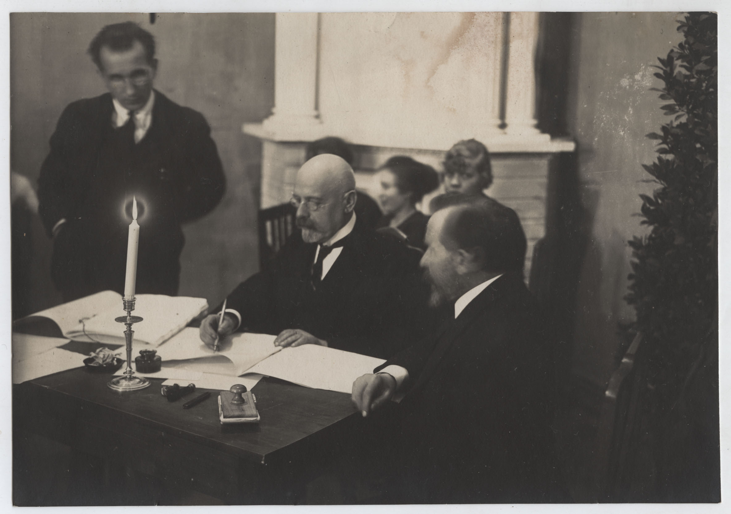 Jaan Poska signing the Treaty of Tartu